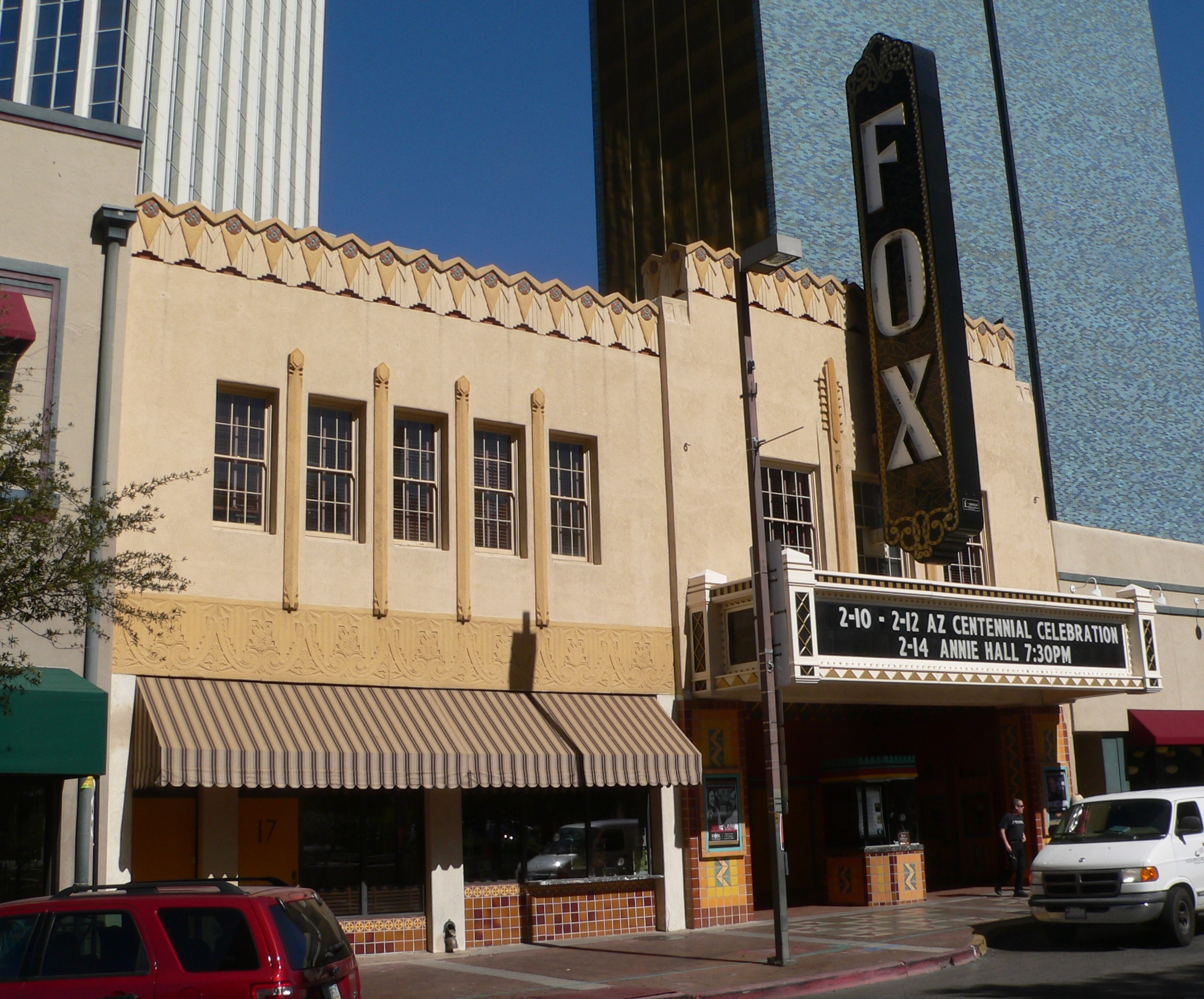 Fox Theatre, located at 17 W. Congress Street in Tucson, Arizona: view from southwest.